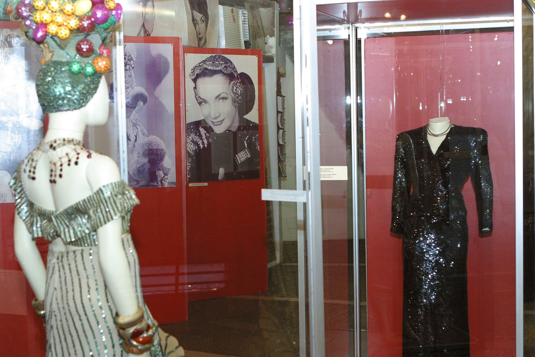 Vestidos e fotos de Carmen Miranda expostos no Museu Carmen Miranda no Rio de Janeiro.